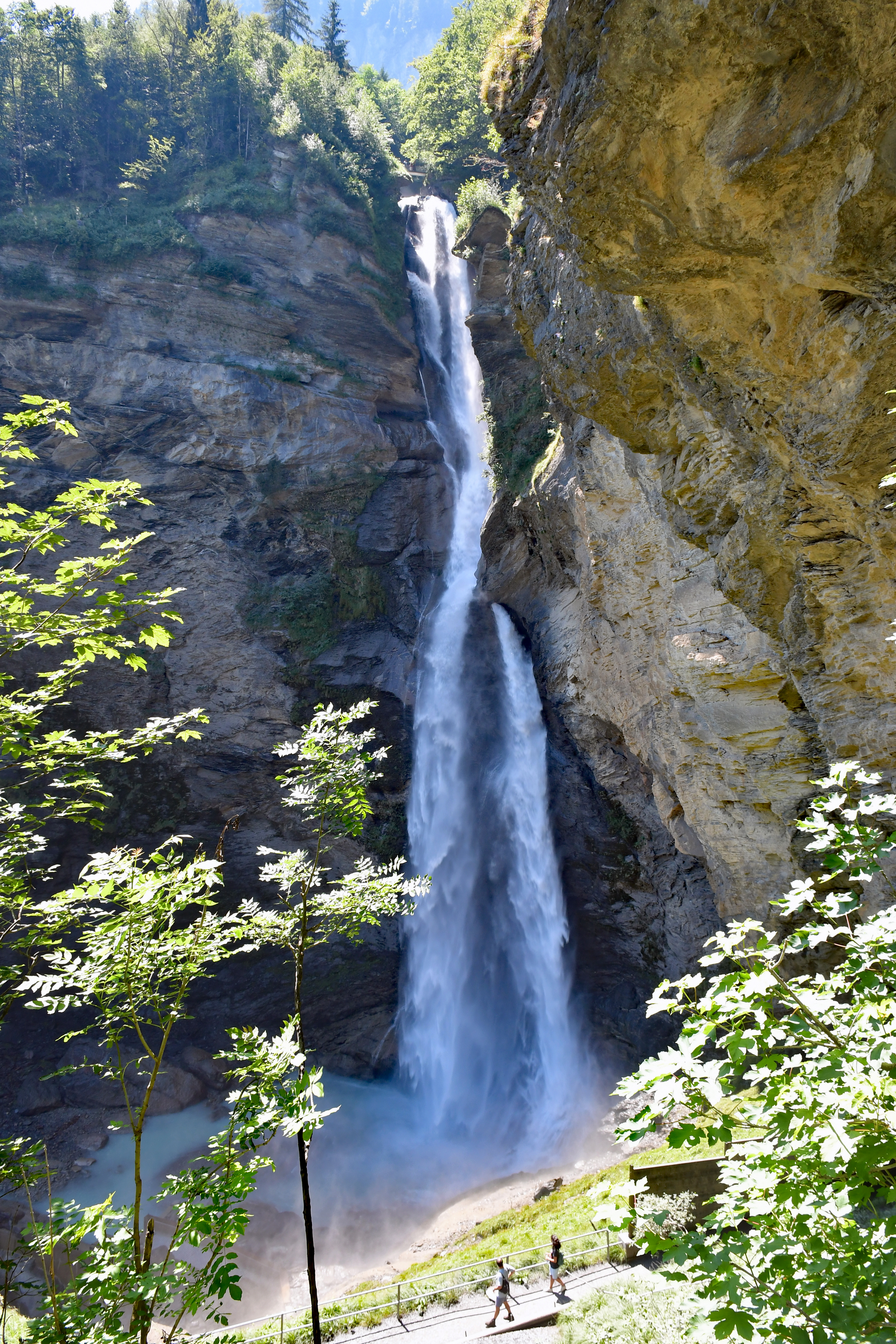 The tallest of the Reichenbach Falls, a waterfall cascade of seven steps on the stream called Reichenbach (or Rychenbach) in the Bernese Oberland region of Switzerland.